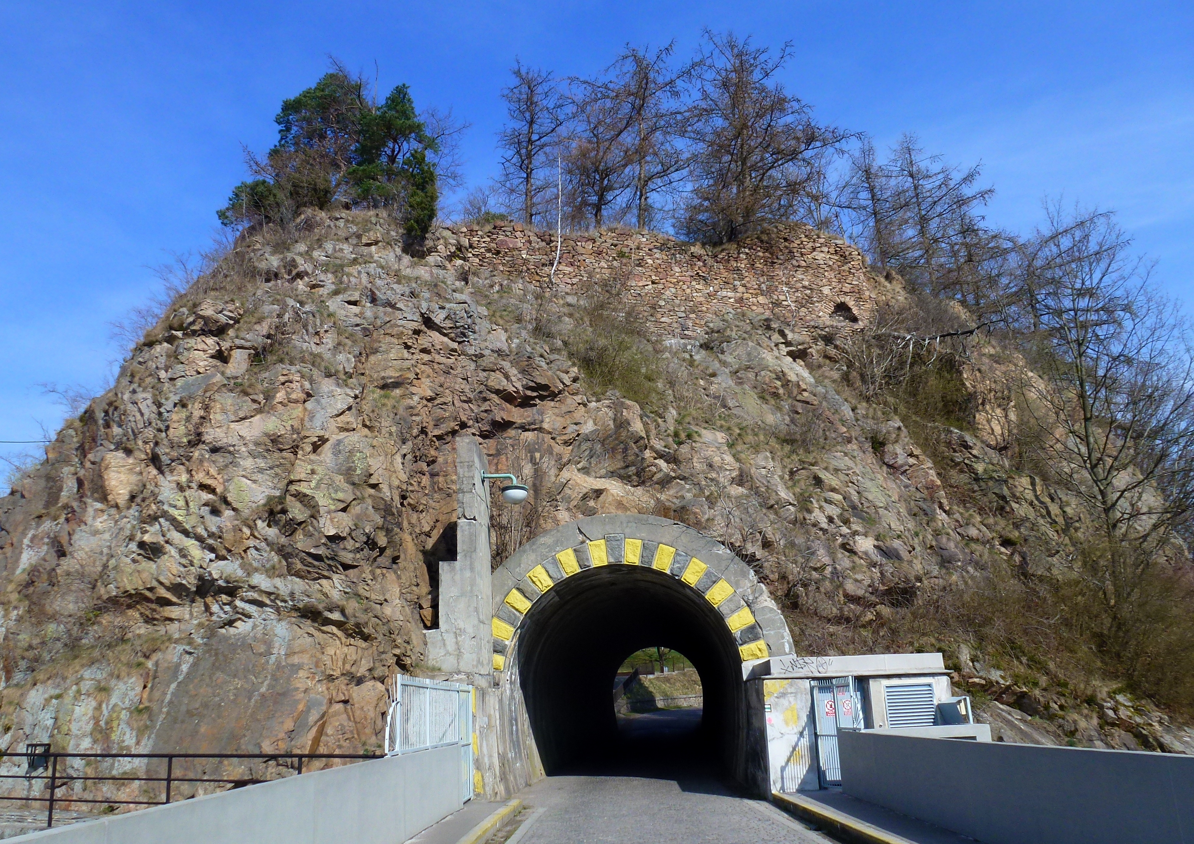 Sečská dam. Tunnel with road from "Seč" under the castle ruin "Vildštejn", on the left bank of the river Chrudimka river. The excavation of the tunnel in the rock ridge (512.5 m) was realized in the first phase of the construction of the dam. The opening ceremony of the construction of the water dam was held on September 15, 1924. The memorial plaque was placed on a rock ridge in the direction from the town of Seč. Photo location: Czech Republic, Pardubice Region, town Seč, Seč Dam, "Kameničská" highlands.